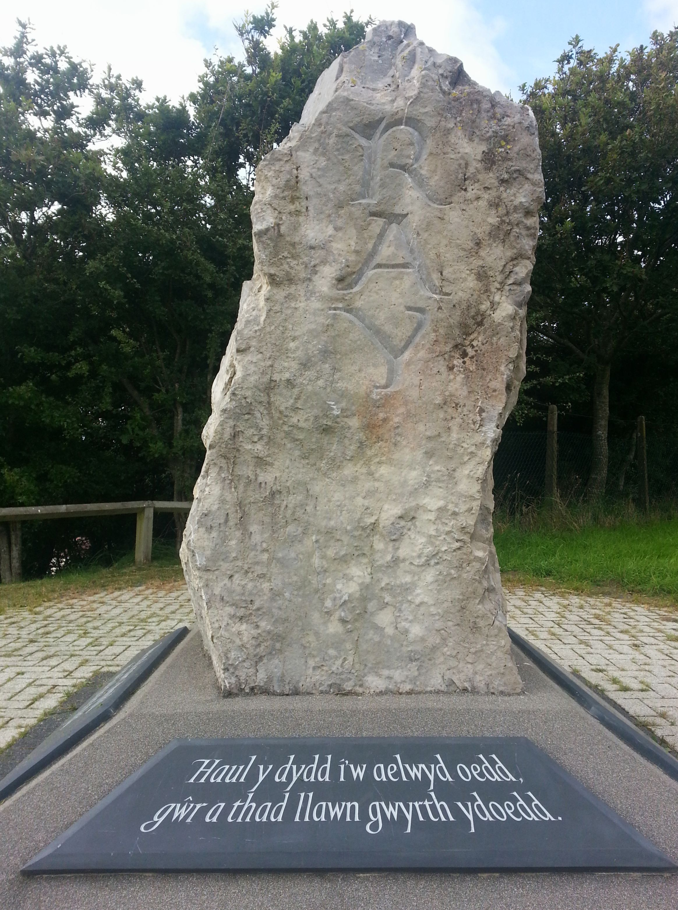 An engraved stone memorial to the rugby player and broadcaster Ray Gravell, which stands in his home village of Mynydd-y-garreg, overlooking Carmarthen Bay.